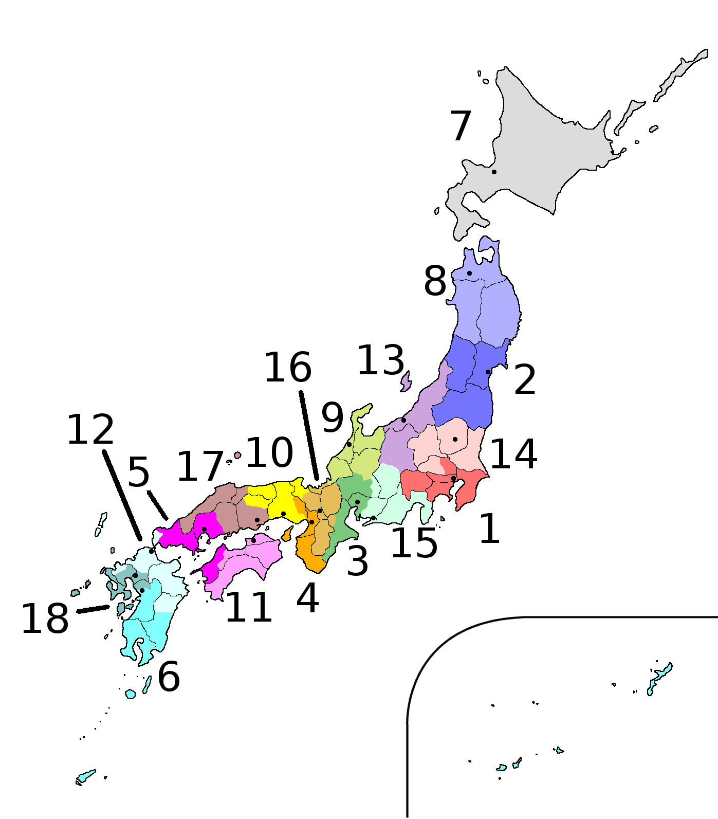 18 divisional regions of Japanese Army since September 17 of 1907 untill July 3 of 1913. Derived from File:Japan template large.png.